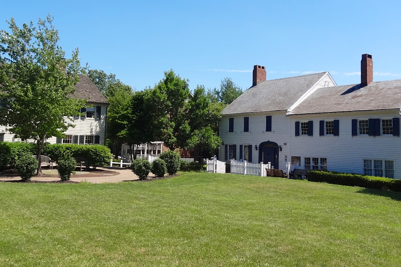 From the left, view of the Indian Queen Tavern, the New Brunswick Barracks, and the Runyon House in East Jersey Olde Towne Village.